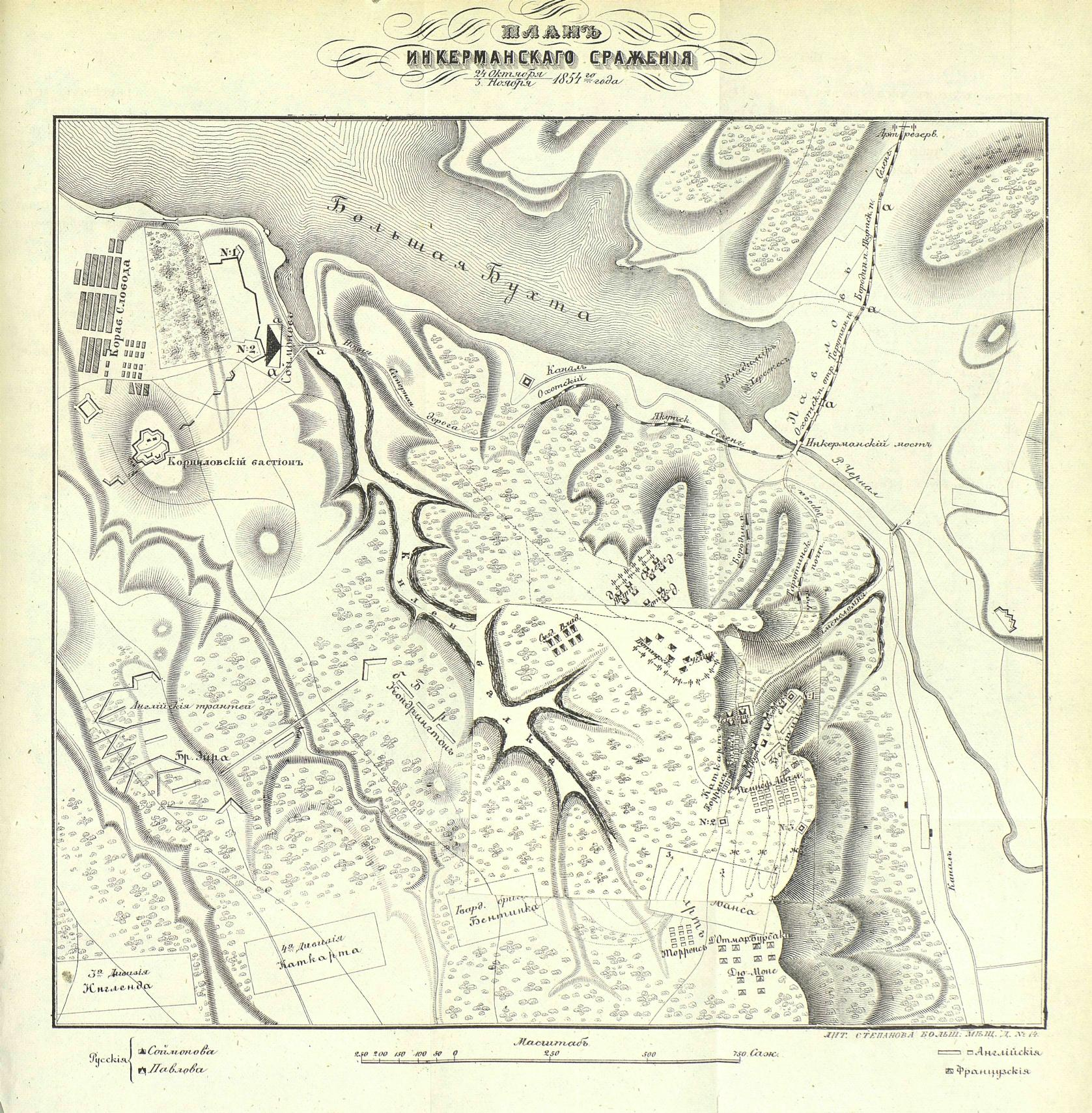 Plan of the Battle of Inkerman during the Crimean War, 5 Nov. 1854